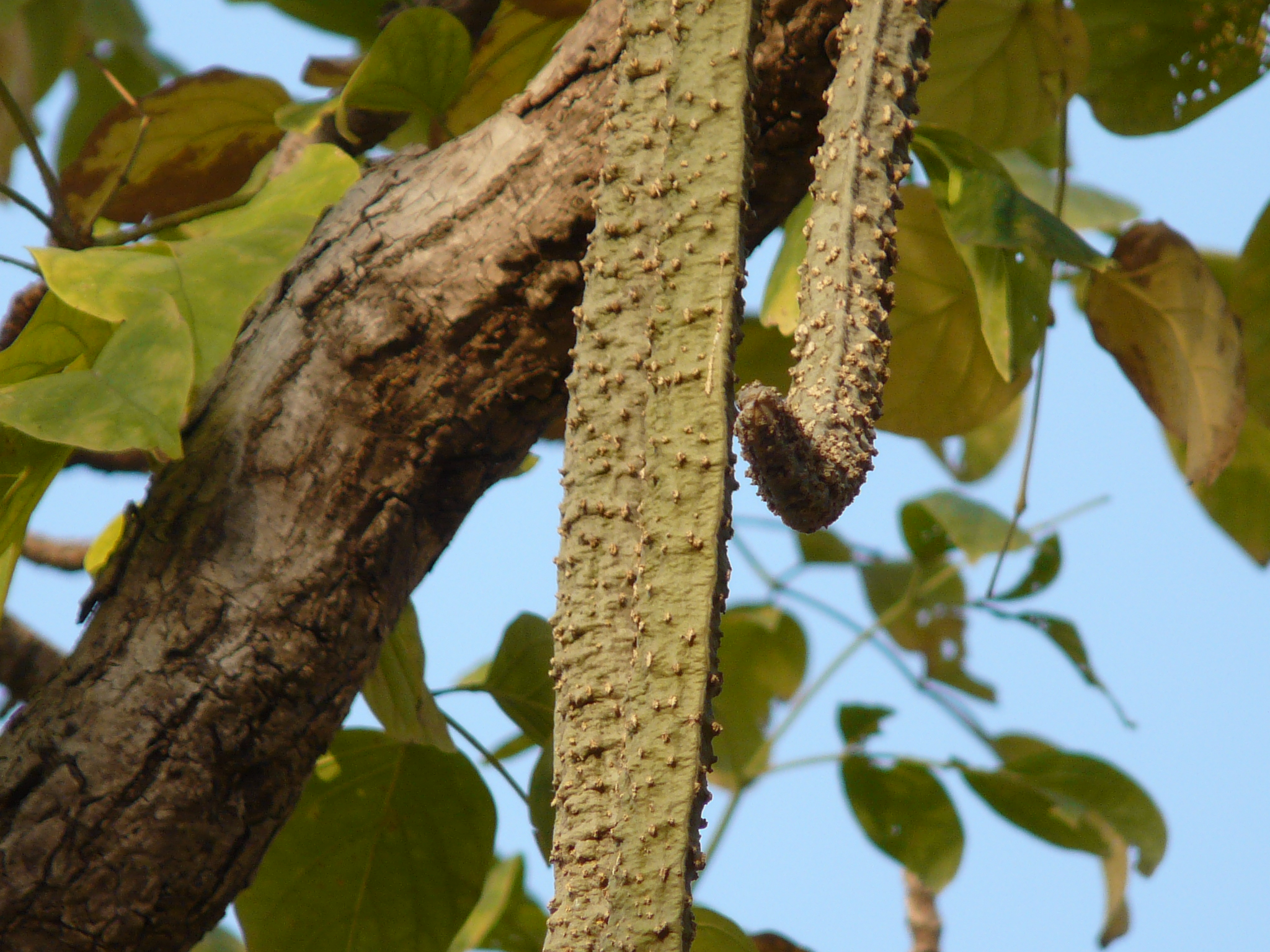 Bignoniaceae (bignonia, or jacaranda family) » Radermachera xylocarpa (Roxb.) Roxb. ex K.Schum. rad-er-MOK-er-uh -- named for Jacob Cornelis Matthias Radermacher, Dutch amateur botanist ... ‡ zy-lo-KAR-puh -- woody fruit ... Dave's Botanary commonly known as: padri tree, stag's-horn trumpet-flower tree, white-flowered trumpet-flower tree • Gujarati: ખડસીંગી khadsingi, ખરસિંગ kharsing • Kannada: ಪಾದರಿ padari • Konkani: घेणशिंगी genashingi, खरशिंगी kharsimgi • Malayalam: വെടങ്കുരണ vetankurana • Marathi: खडशिंगी khadshingi, खुरशिंग khurasinga • Tamil: பாதிரி patiri, வெடங்குறுணி vetankuruni Native to: India References: Flowers of India • NPGS / GRIN • ENVIS - FRLHT • DDSA